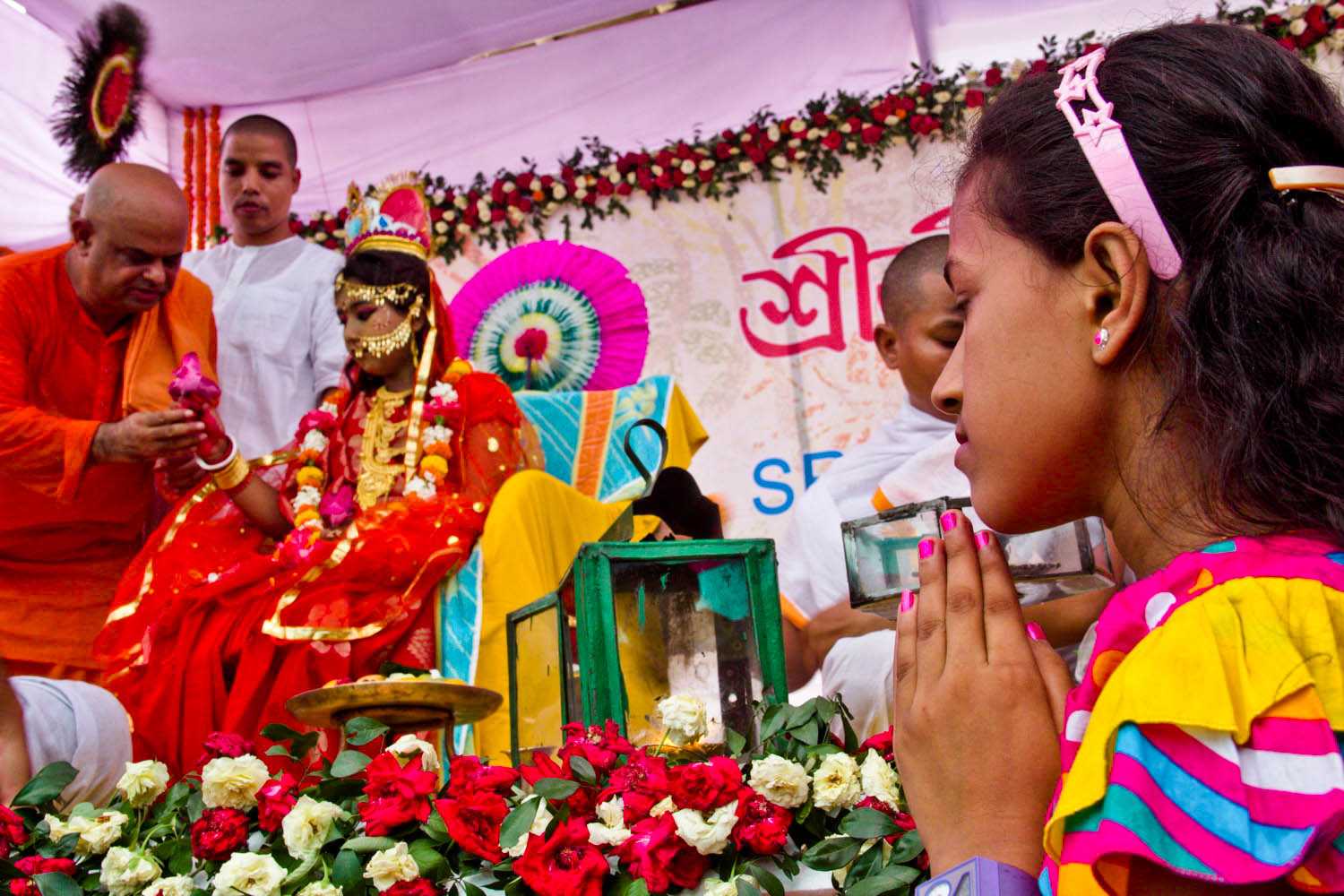 Maiden Worship is a part of Durga puja rituals.For the worship a minor girl selected for as a maiden.